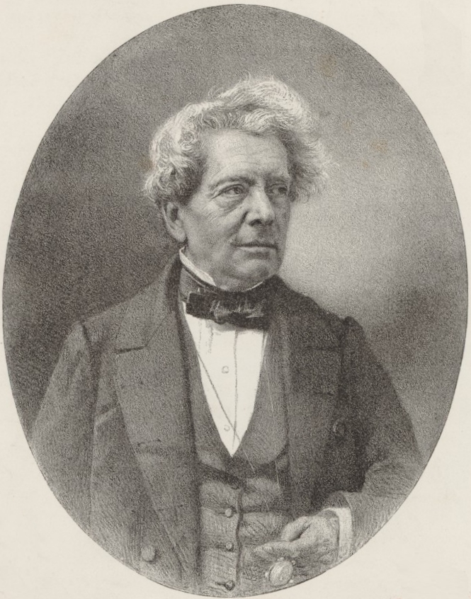 Pencil and charcoal sketch by Édouard Blot (1850)